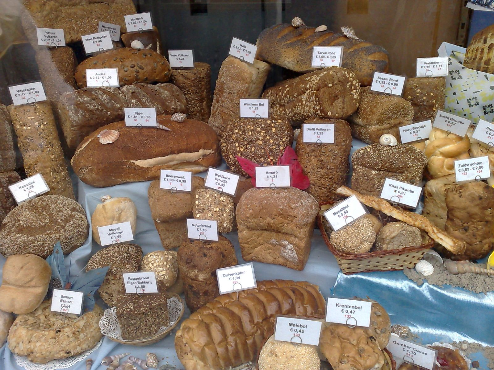 There are a lot of different types of bread in the Netherlands